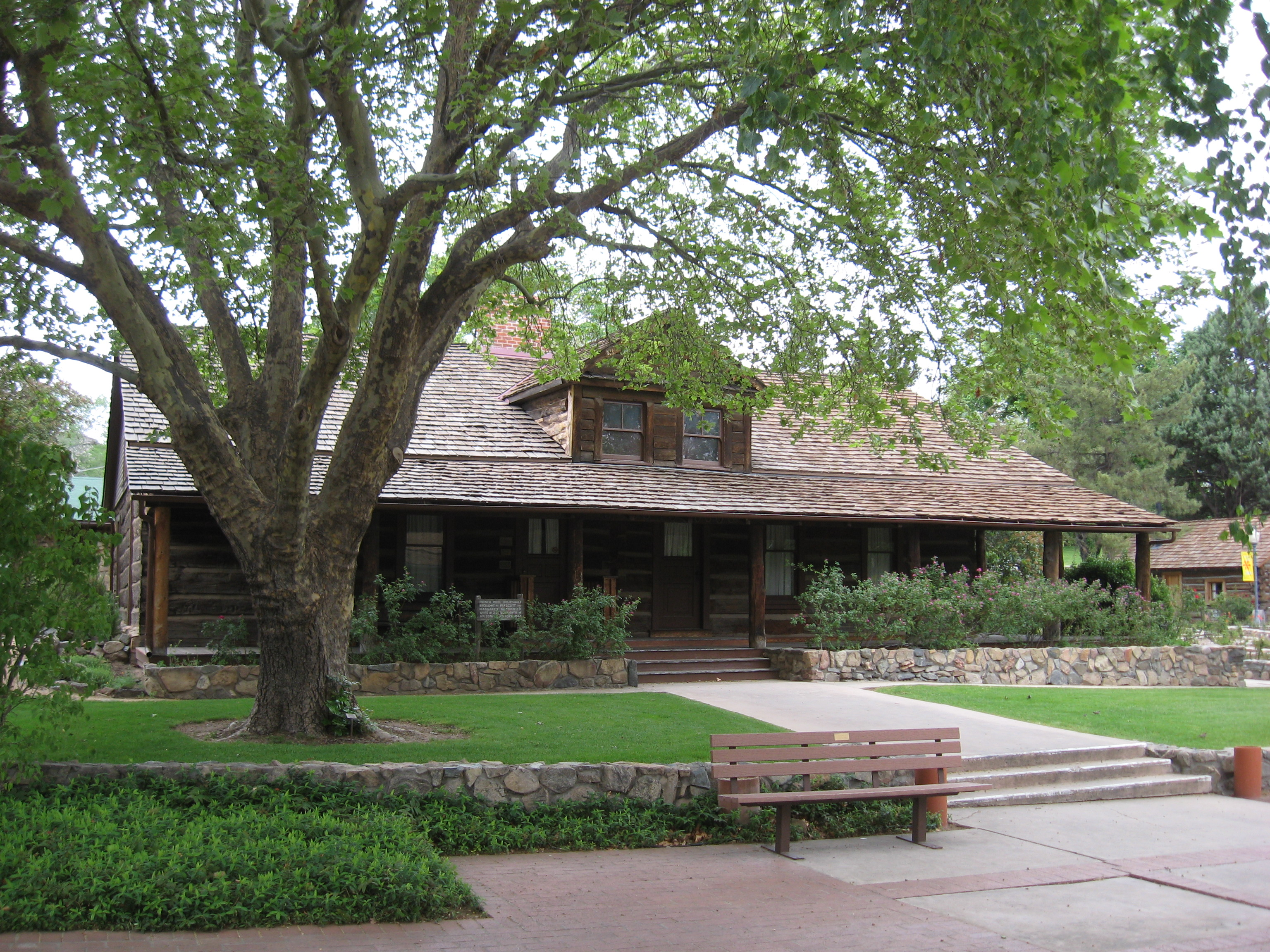 The first Arizona Territory capitol building and Governor's Mansion — in Prescott, Arizona. Front—east facade view, built in 1864. Now part of the Sharlot Hall Museum open air museum complex (opened 1928).